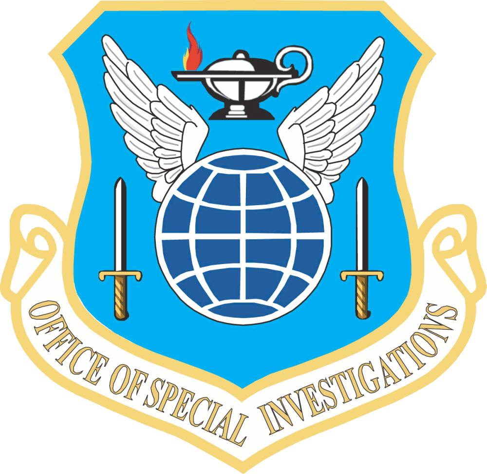 Emblem of Air Force Office of Special Investigations (AFOSI), a Field Operating Agency of the United States Air Force